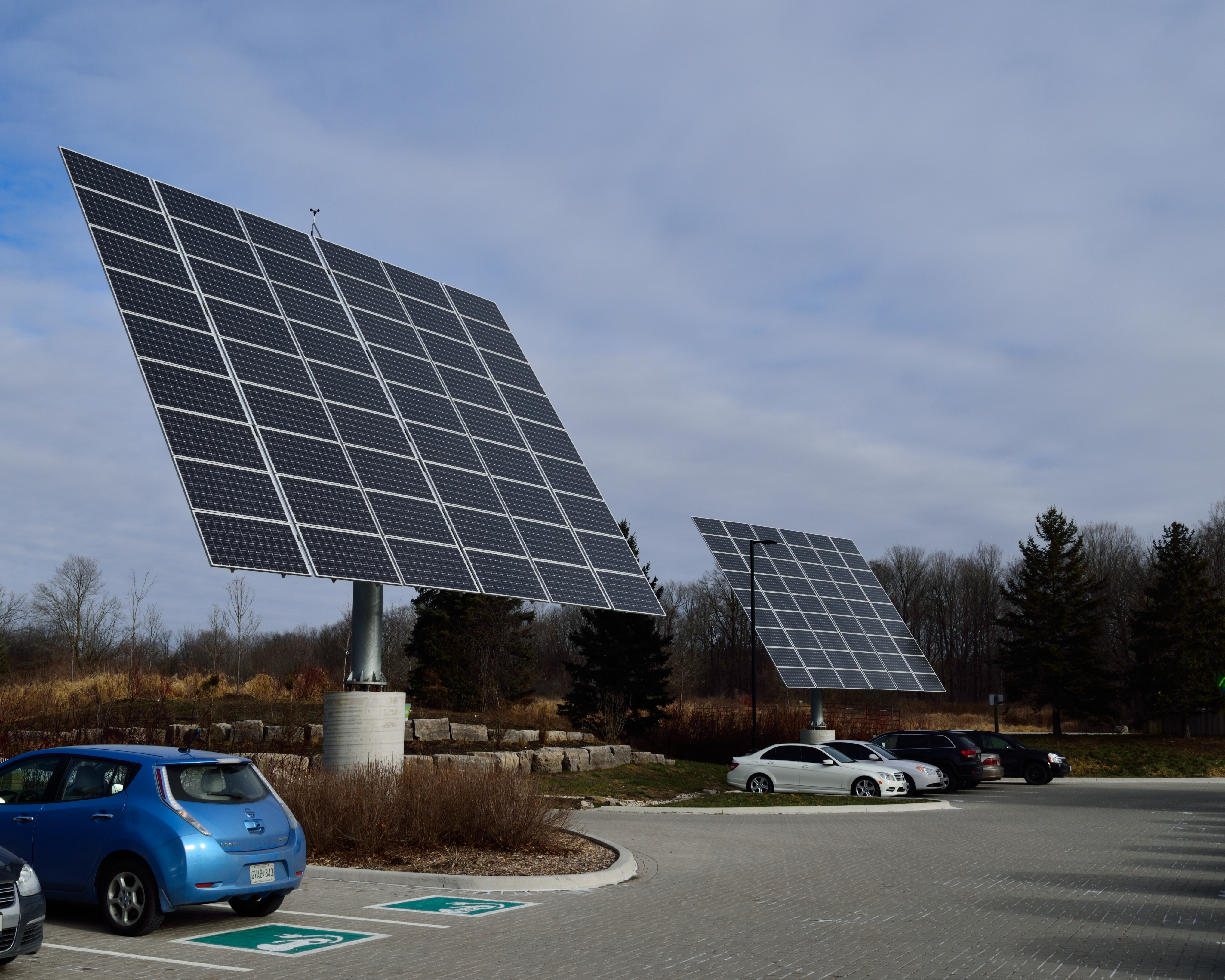 Solar Panels at Earth Rangers Centre